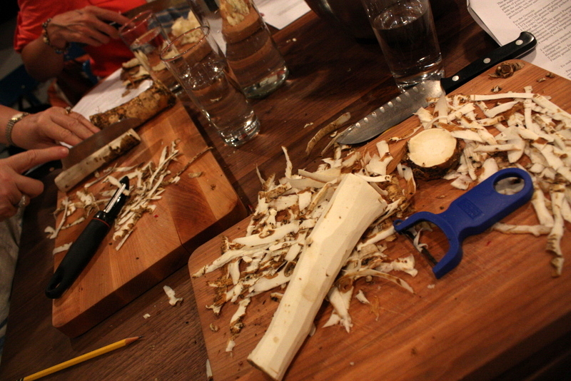 We also made a horseradish gnocchi. Be warned when using fresh horseradish. Like chopping onions or hot peppers, it's a sinus-clearing experience.